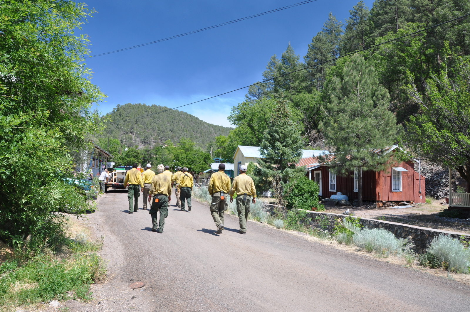 Photo taken by Max Wahlberg. Credit USFS Gila National Forest